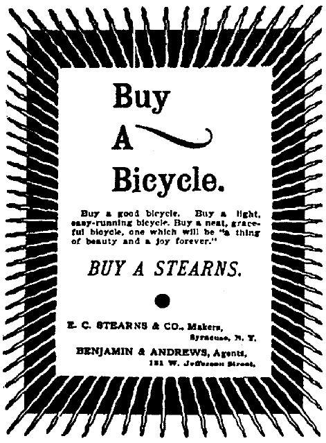 Buy a Bicycle, Buy a Stearns - Benjamin & Andrews, agents at 121 West Jefferson Street in Syracuse, New York 1895